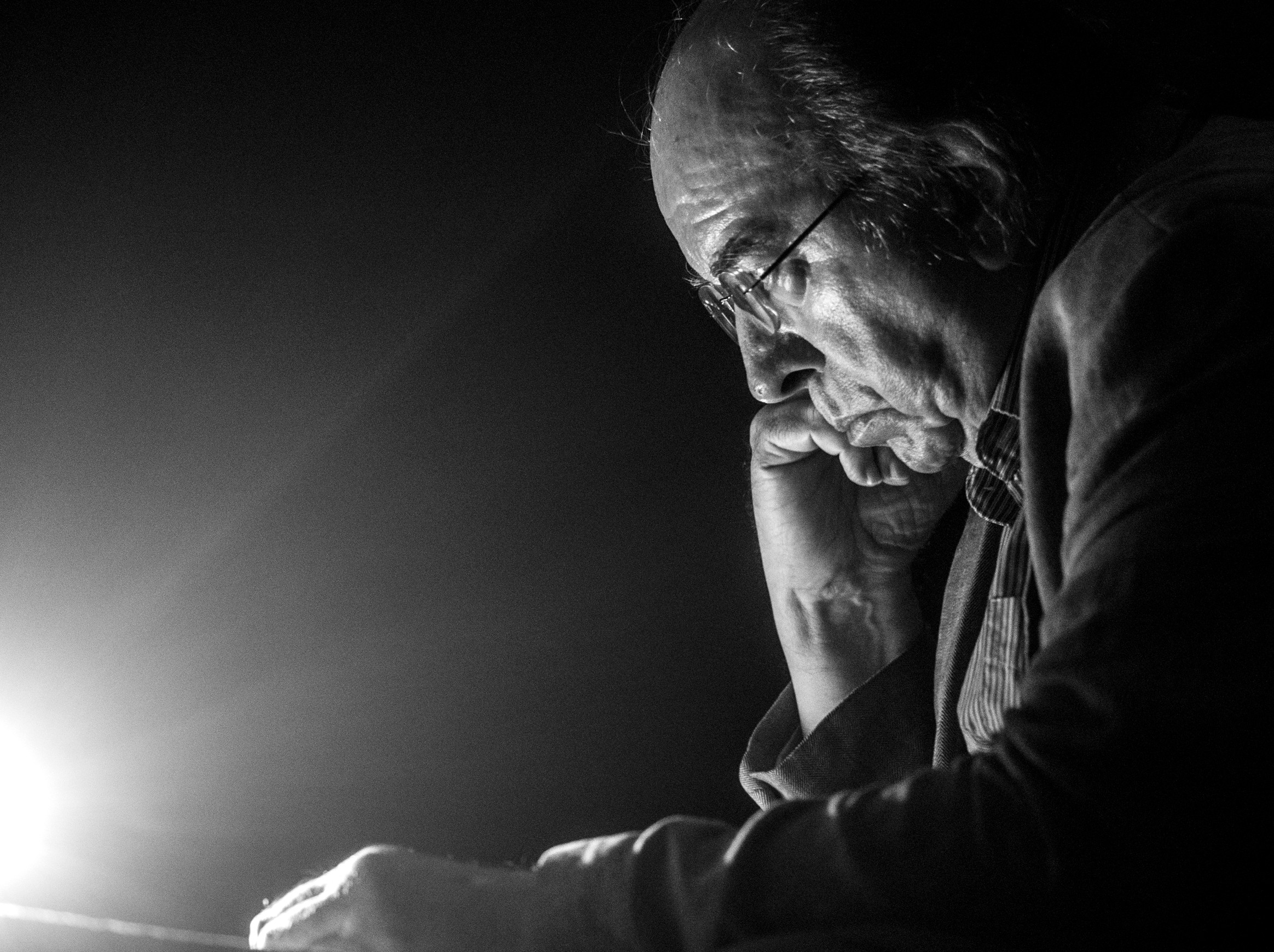 Jean-Claude Éloy during a performance of his electroacoustic composition Le minuit de la foi (The Midnight of the Faith), Taipei, August 2015.